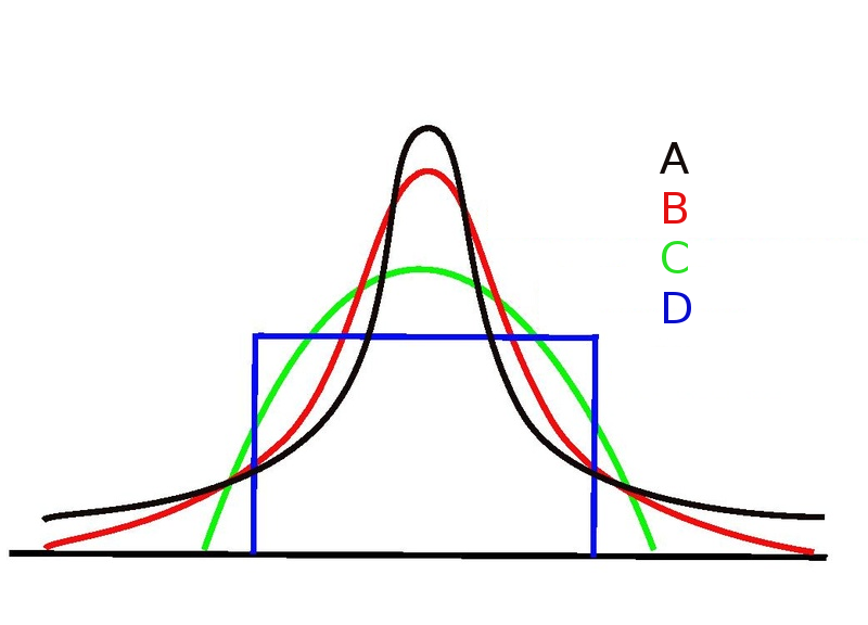 Diagram of kurtosis levels without text. Based on .